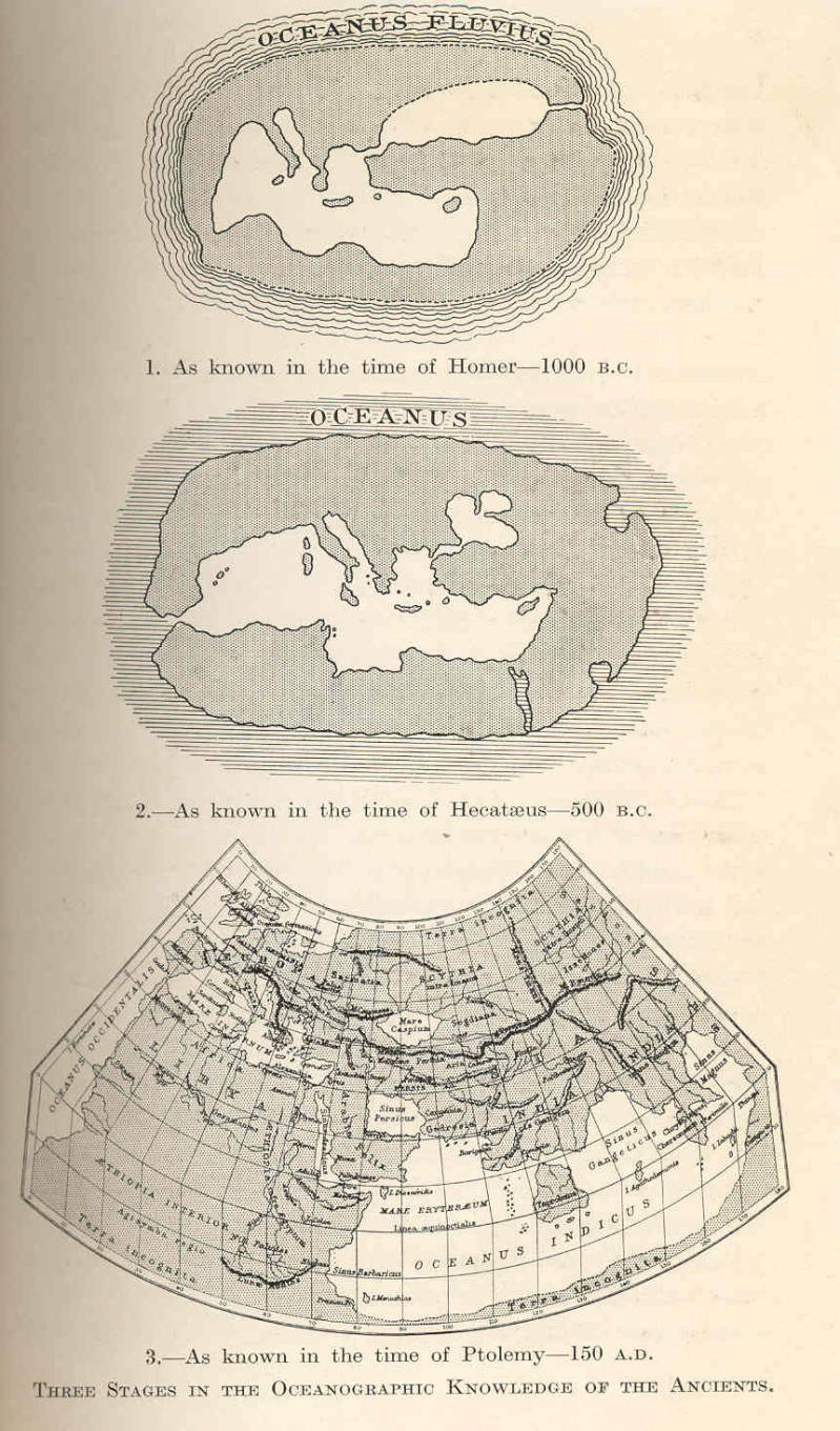 Three Stages in the Oceanographic Knowledge of the Ancients 1. As Known in the time of Homer--1000 B.C. 2.As Known in the time of Hecataeus--500 B.C. 3.As known in the time of Ptolemy--150 A.D. 1923